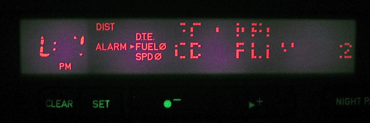 Saab Information Display from 2001 9-5 suffering from pixel failure.